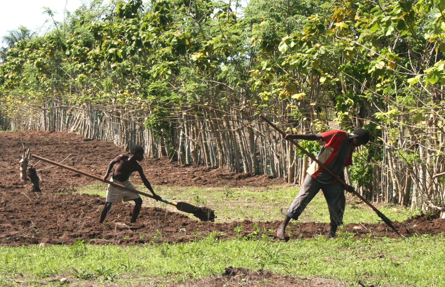 A man and a child using traditional tools (the diola/Jola, and the kadiandou or kajendo/kajendu), to till the soil before the sowing of African rice (Sénégal). Photo taken at Boucotte (CR Diembéring).